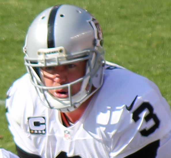 Oakland Raiders quarterback Carson Palmer under center on Sept. 30, 2012 vs the Denver Broncos